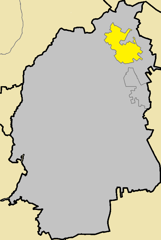 Agios Eleftherios in Latsia.